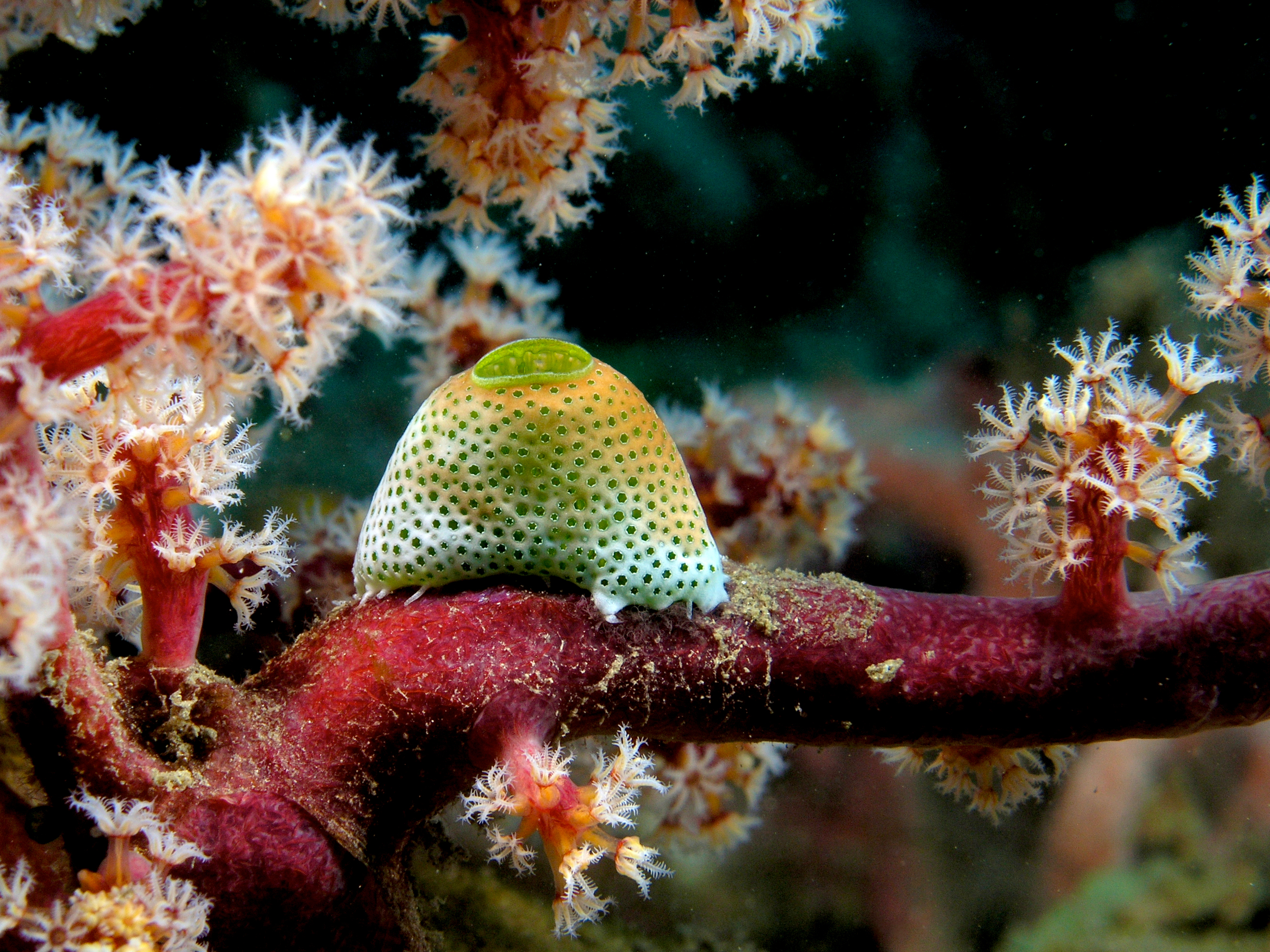 Didemnum molle (Ascidian) on Siphonogorgia godeffroyi (Soft tree coral)